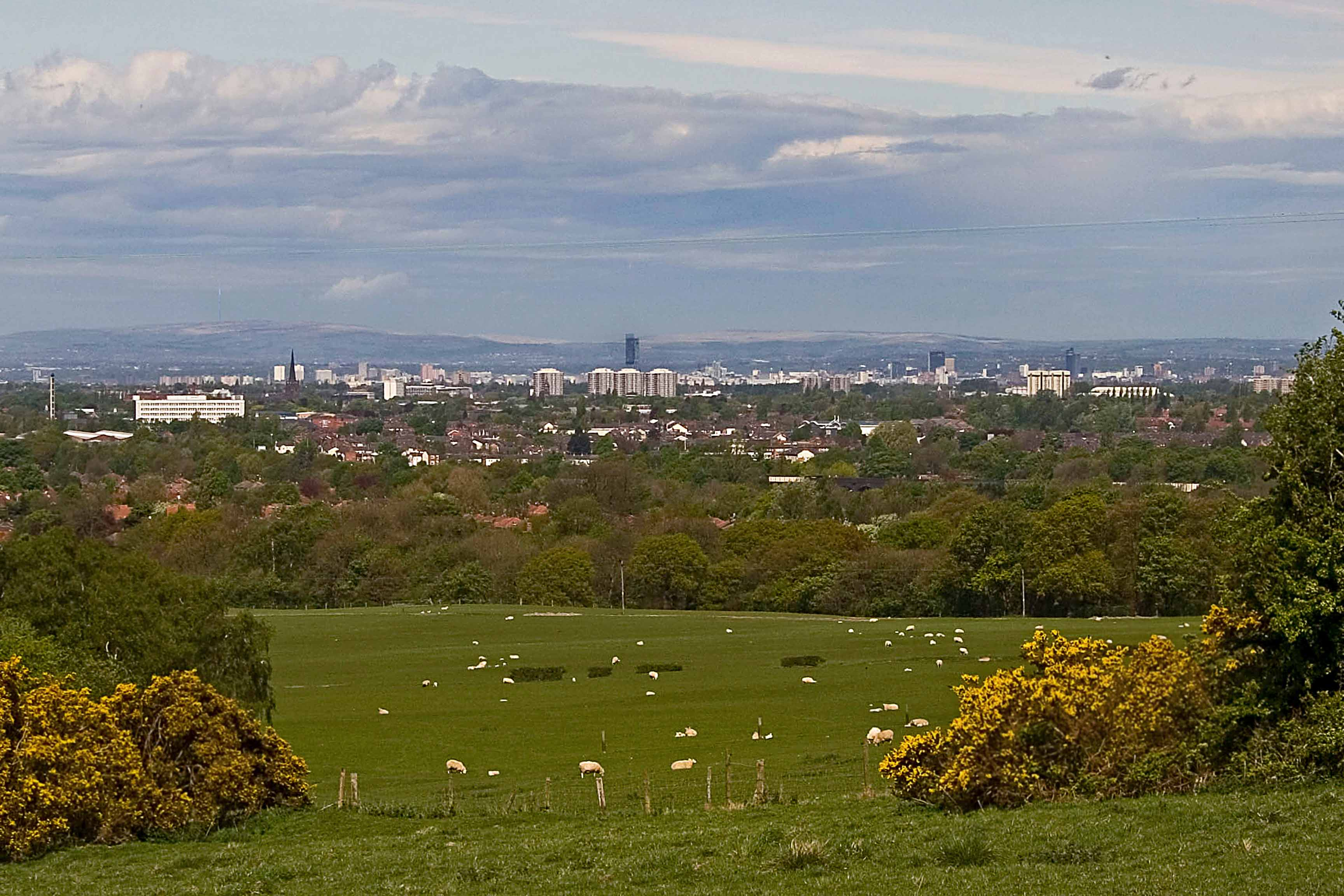 A view of Greater Manchester from Poynton in Cheshire, England. In the background are the South Pennines.